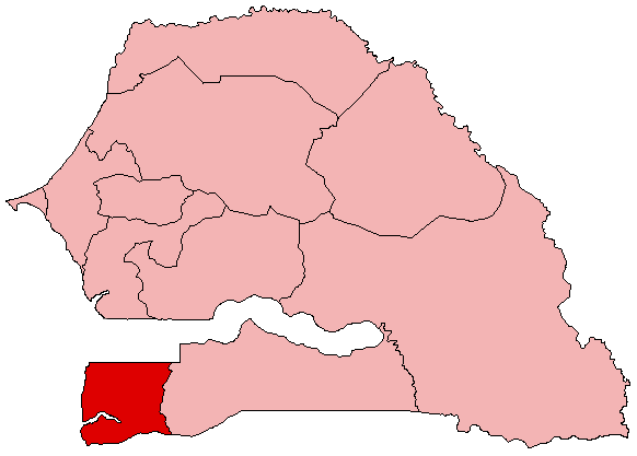 Map of Ziguinchor region, Senegal.